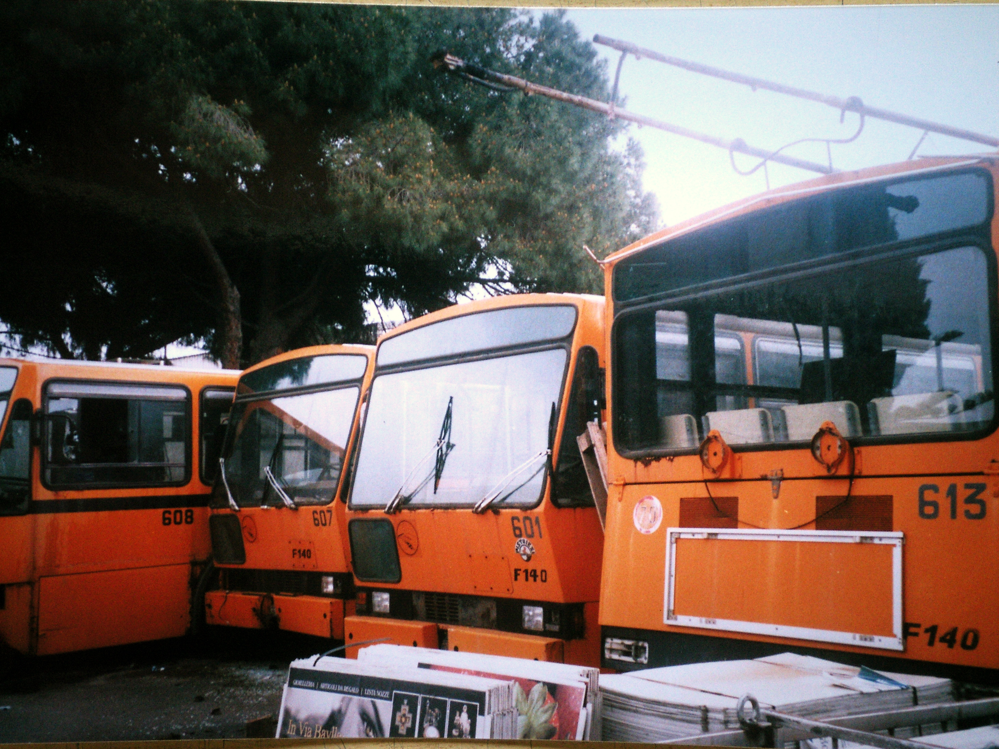 Dismantled old trolleybuses